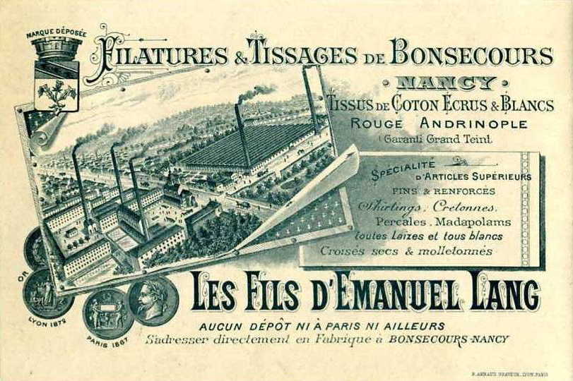 Les Fils d'Emanuel Lang, Filatures et Tissages de Bonsecours-Nancy